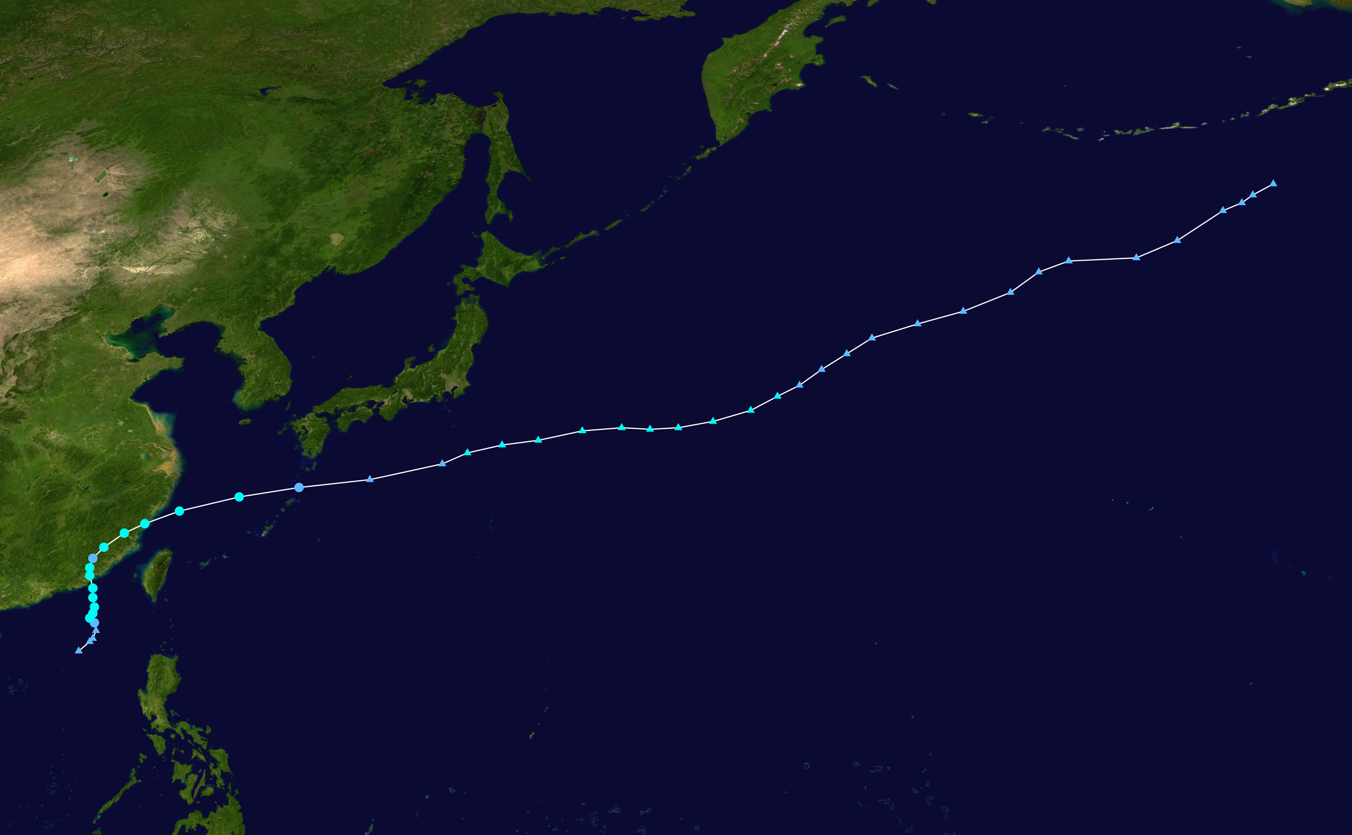 Track map of Tropical Storm Hagibis of the 2014 Pacific typhoon season. The points show the location of the storm at 6-hour intervals. The colour represents the storm's maximum sustained wind speeds as classified in the Saffir–Simpson scale (see below), and the shape of the data points represent the nature of the storm, according to the legend below. Saffir–Simpson scale Tropical depression≤38 mph≤62 km/h Category 3111–129 mph178–208 km/h Tropical storm39–73 mph63–118 km/h Category 4130–156 mph209–251 km/h Category 174–95 mph119–153 km/h Category 5≥157 mph≥252 km/h Category 296–110 mph154–177 km/h Unknown Storm type Tropical cyclone Subtropical cyclone Extratropical cyclone / Remnant low / Tropical disturbance / Monsoon depression